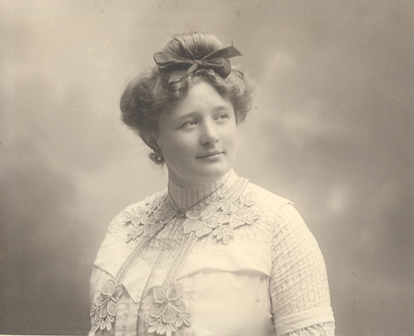 Opera vocalist Božena Kacerovská about 1910